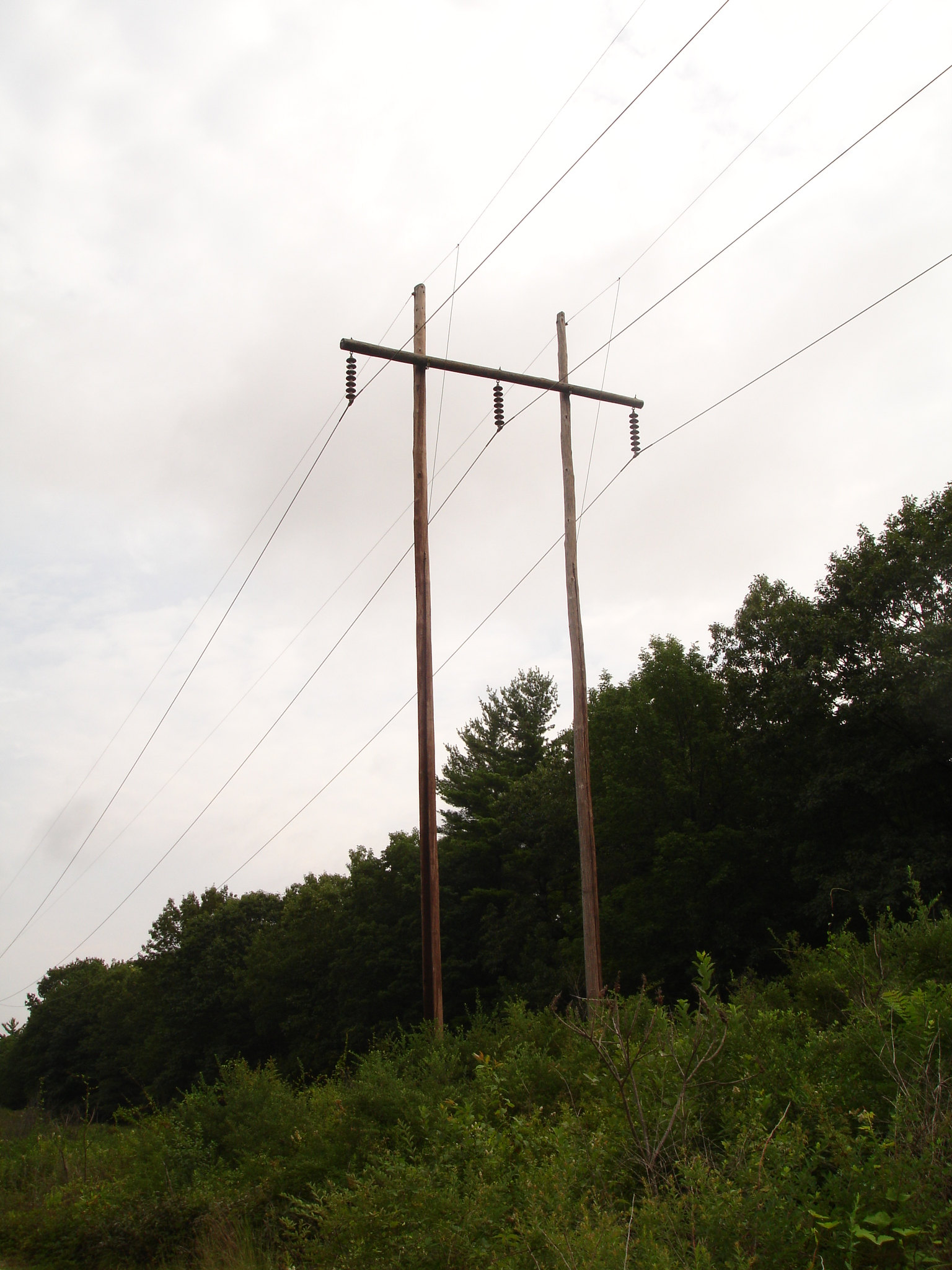 A wood pole transmission structure that carries a 115 kV line in Massachusetts, USA